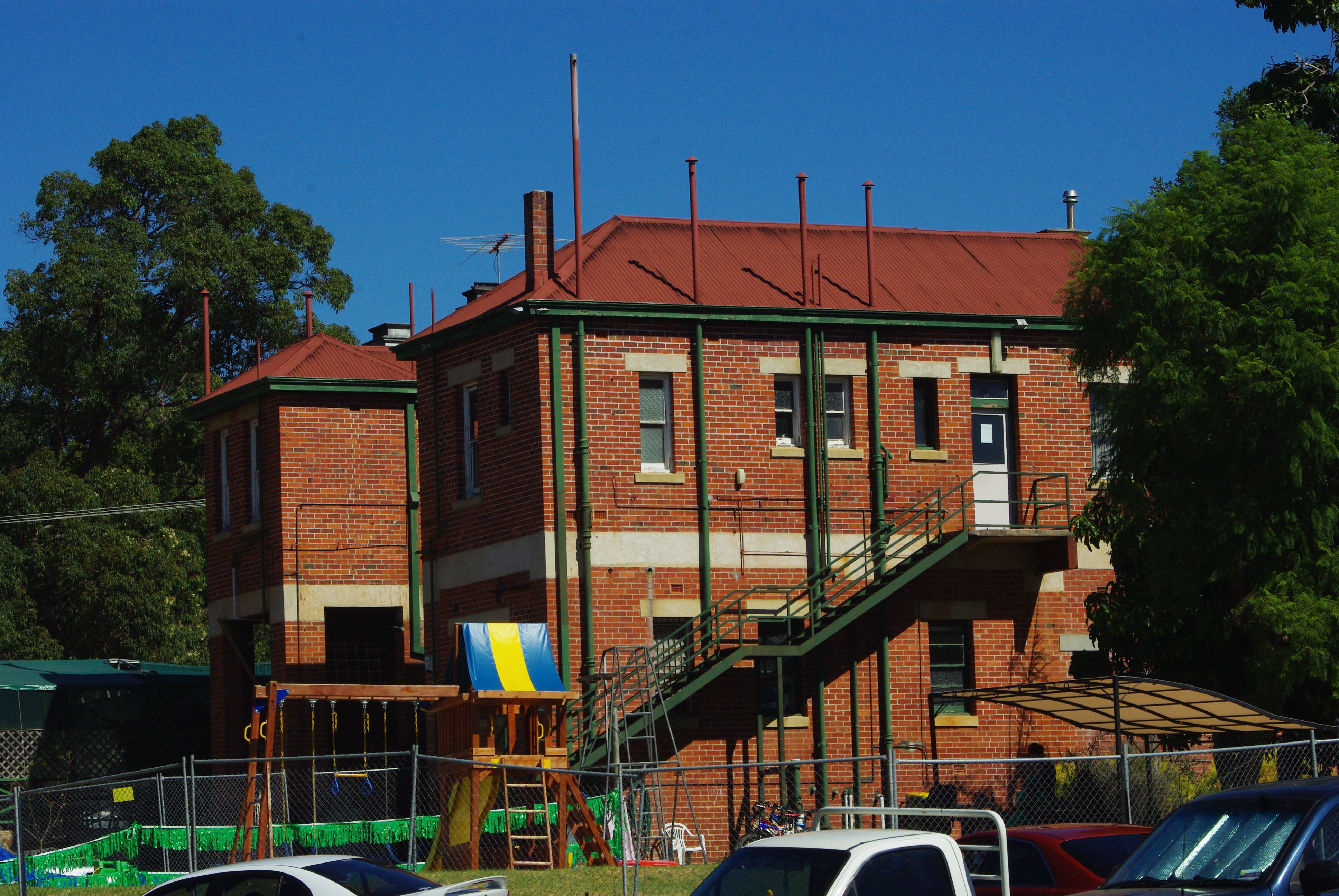 Mundaring Hotel - Mundaring, Western Australia - north view of hotel in 2009.